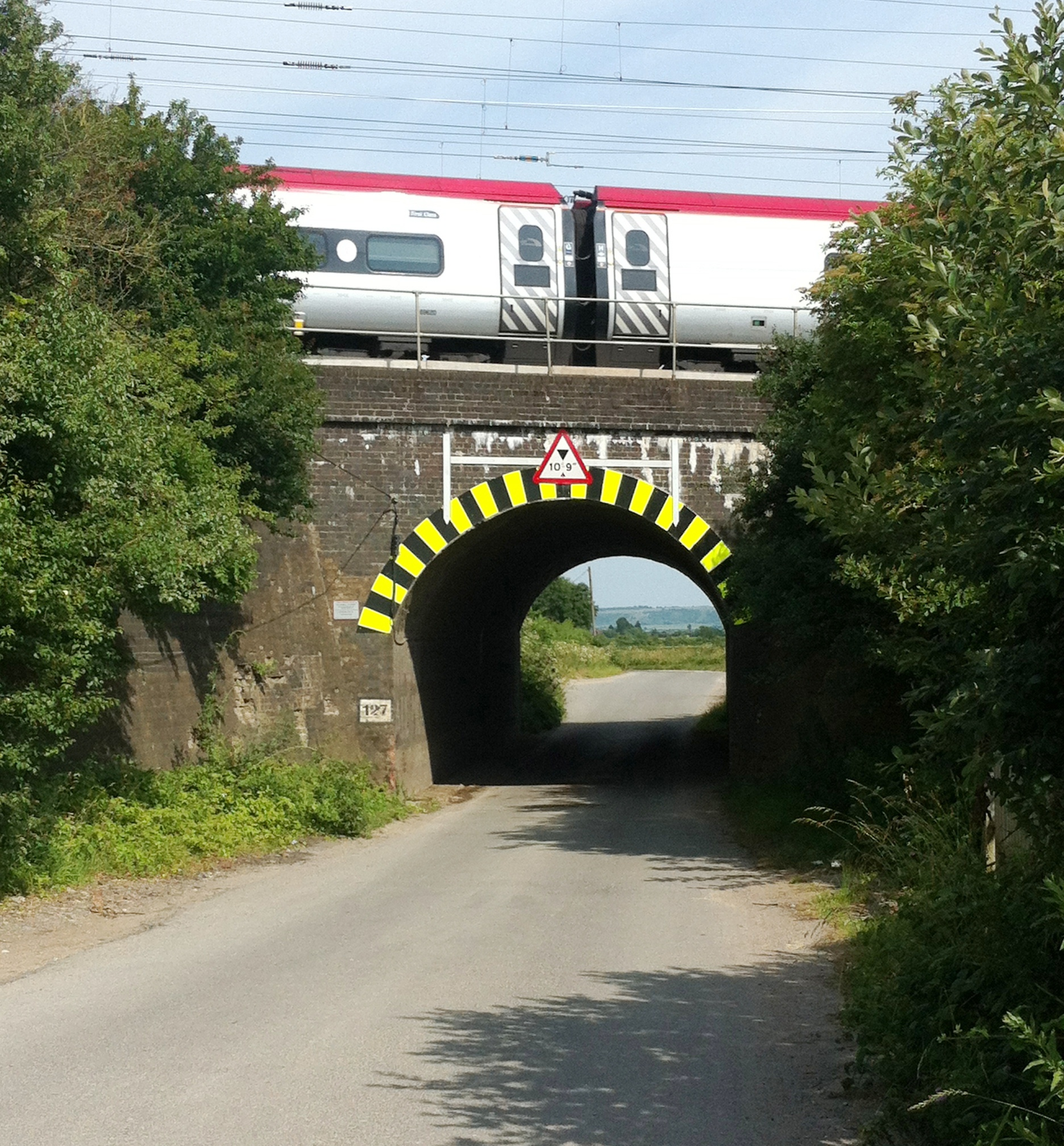 Train Robbers' Bridge (also known as Bridego Bridge) near Ledburn, Buckinghamshire, UK